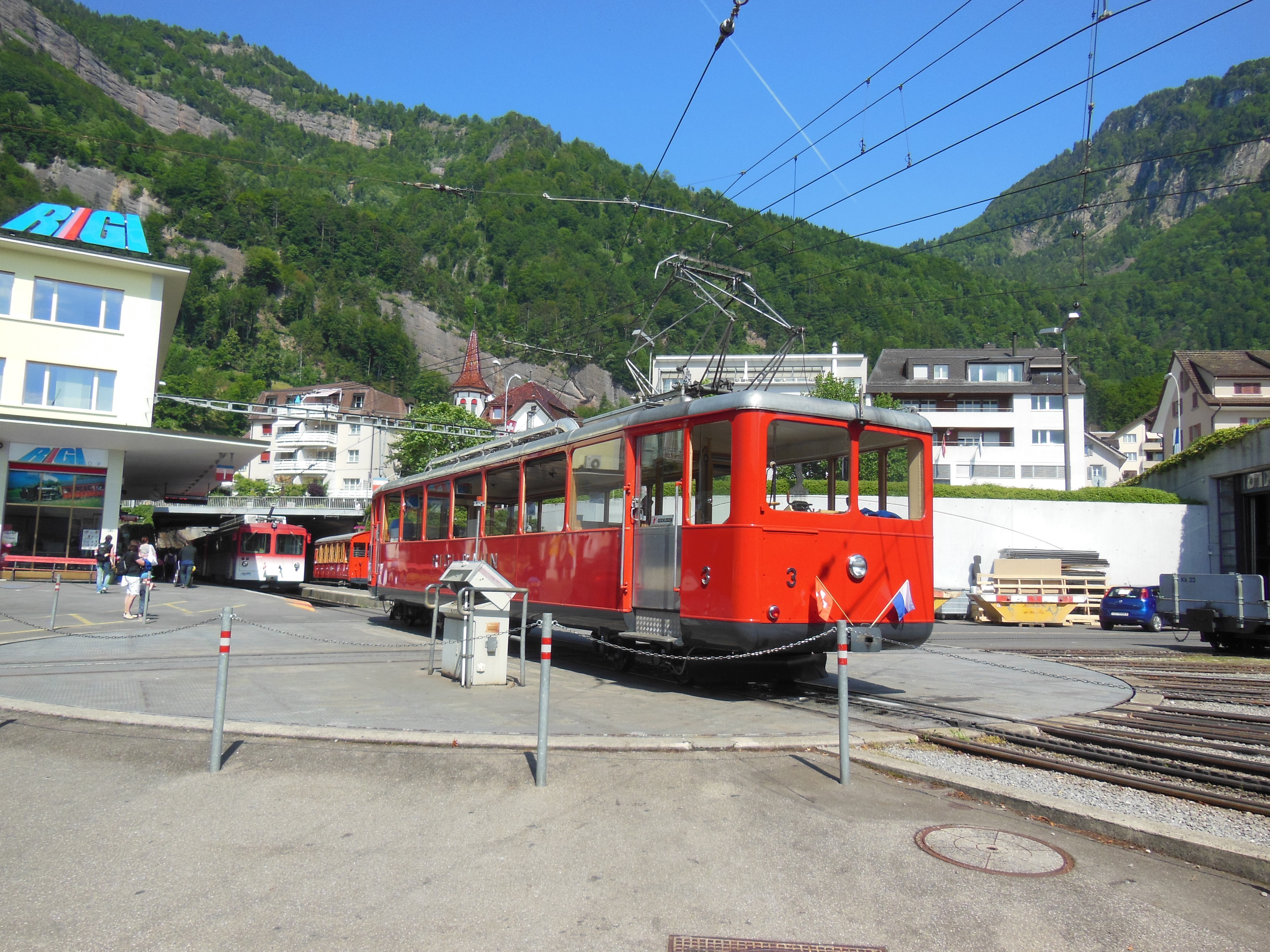 The Vitznau terminus of the Vitznau-Rigi Bahn in Switzerland. Car 3 is on the turntable that links the station (background) with depot (to right). The steamer landing stage is behind the camera. For more information, see the Wikipedia article Rigi-Bahnen.